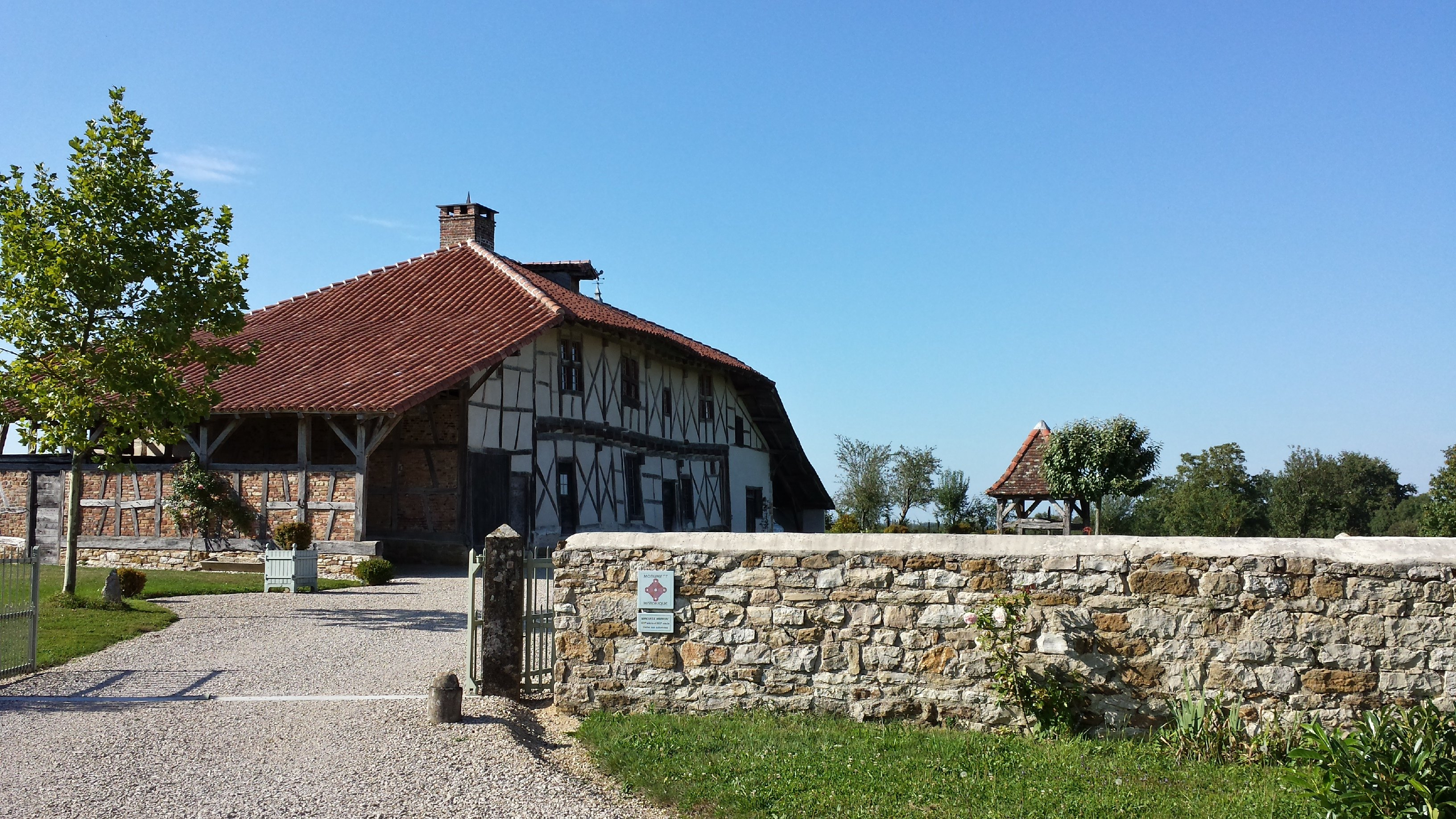 Manoir de Marmont (Marmont Manor), Bény, Ain, France (1434)